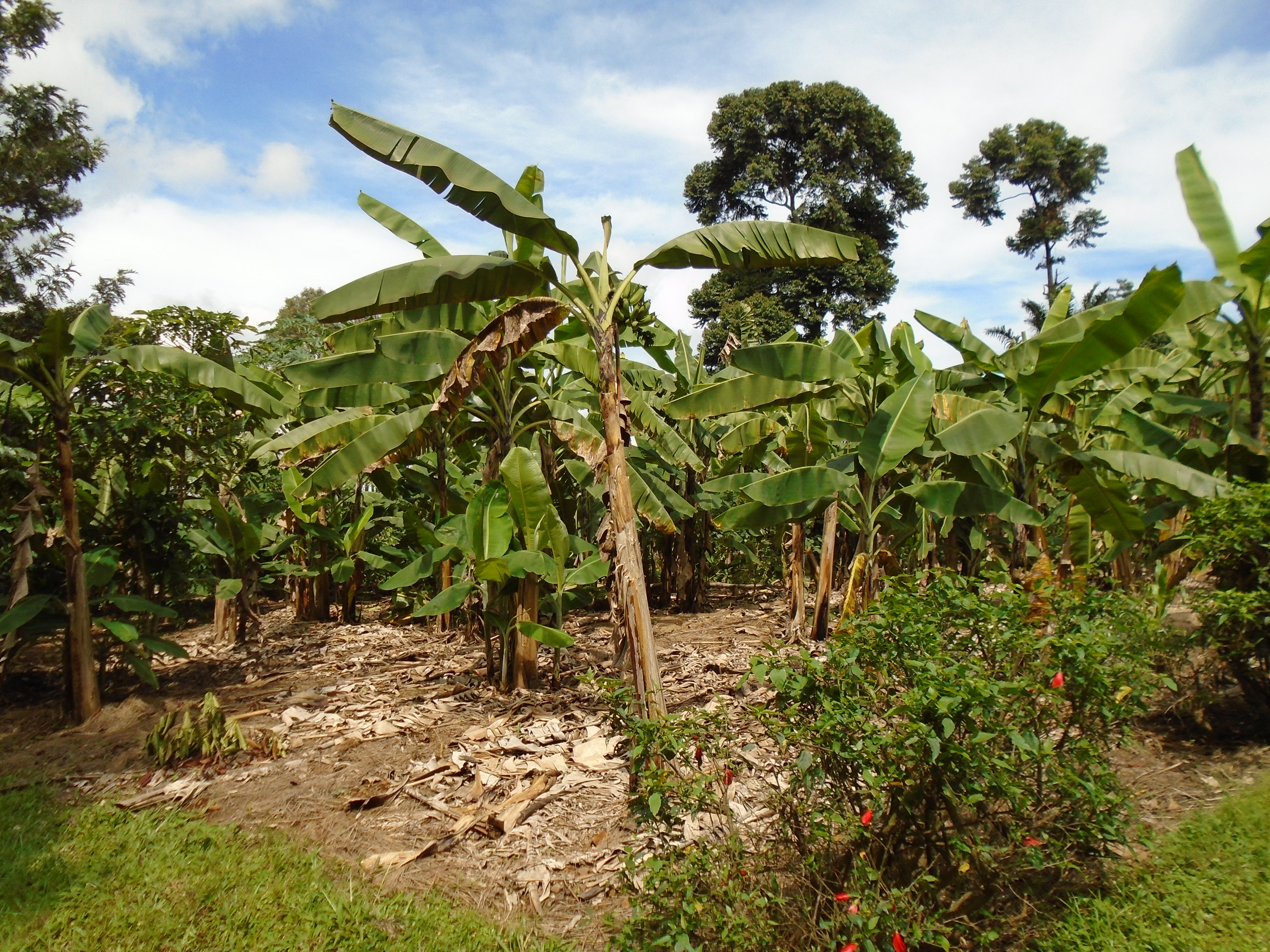 Haya kibanja in Bukoba Tanzania, with banana and coffee plants